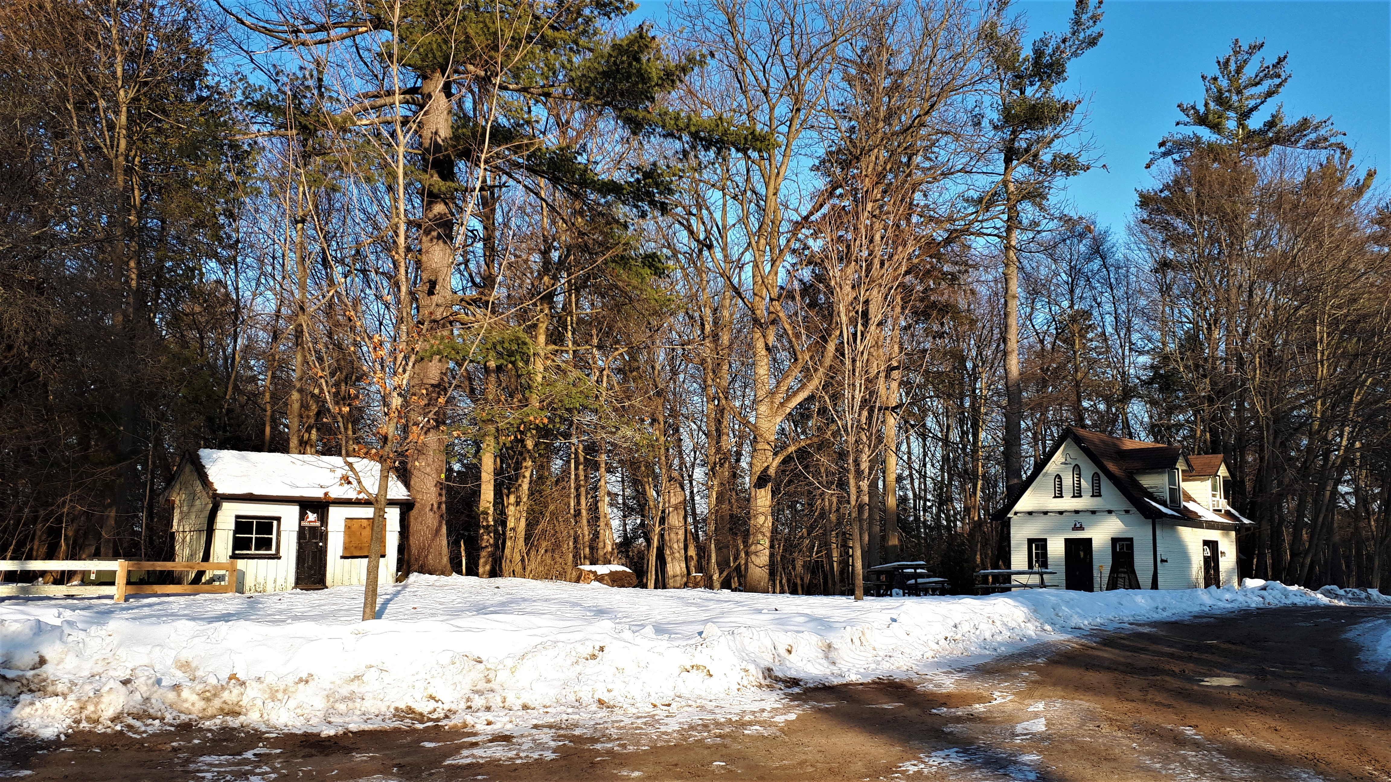 Lake St. George Conservation Field Centre- Doll House and Snively House in Richmond Hill-Ontario Lake St. George is a kettle lake in Richmond Hill, Ontario and is located in the conservation area